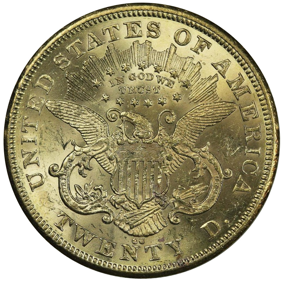 Reverse of 1875-CC double eagle